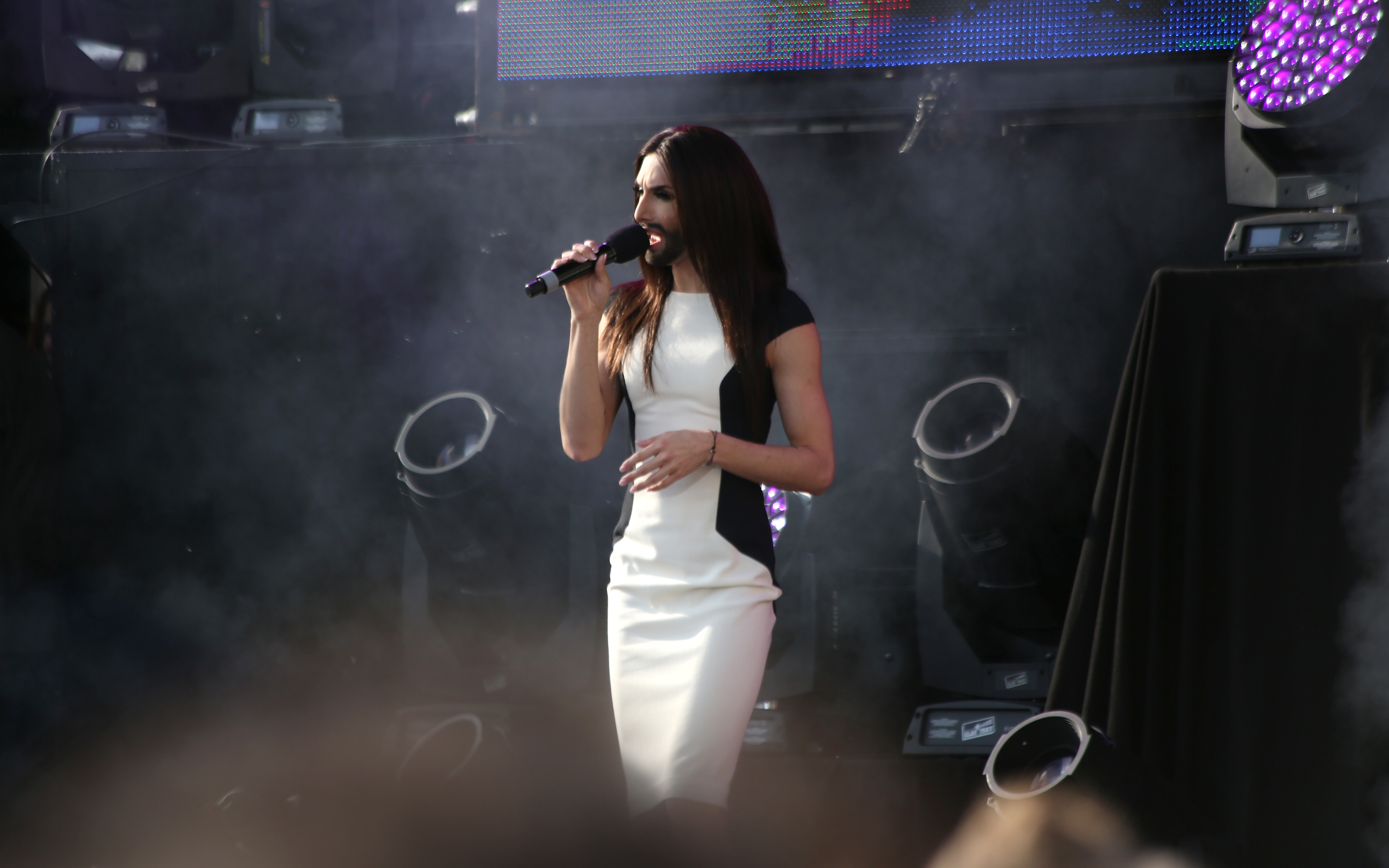 On 18 May 2014 Conchita Wurst, winner of the Eurovision Song Contest 2014 on 10 May, was officially received at the Federal Chancellery of Austria. After that she gave a performance on Ballhausplatz in front of an estimated audience of 12000 people (Vienna, Austria).